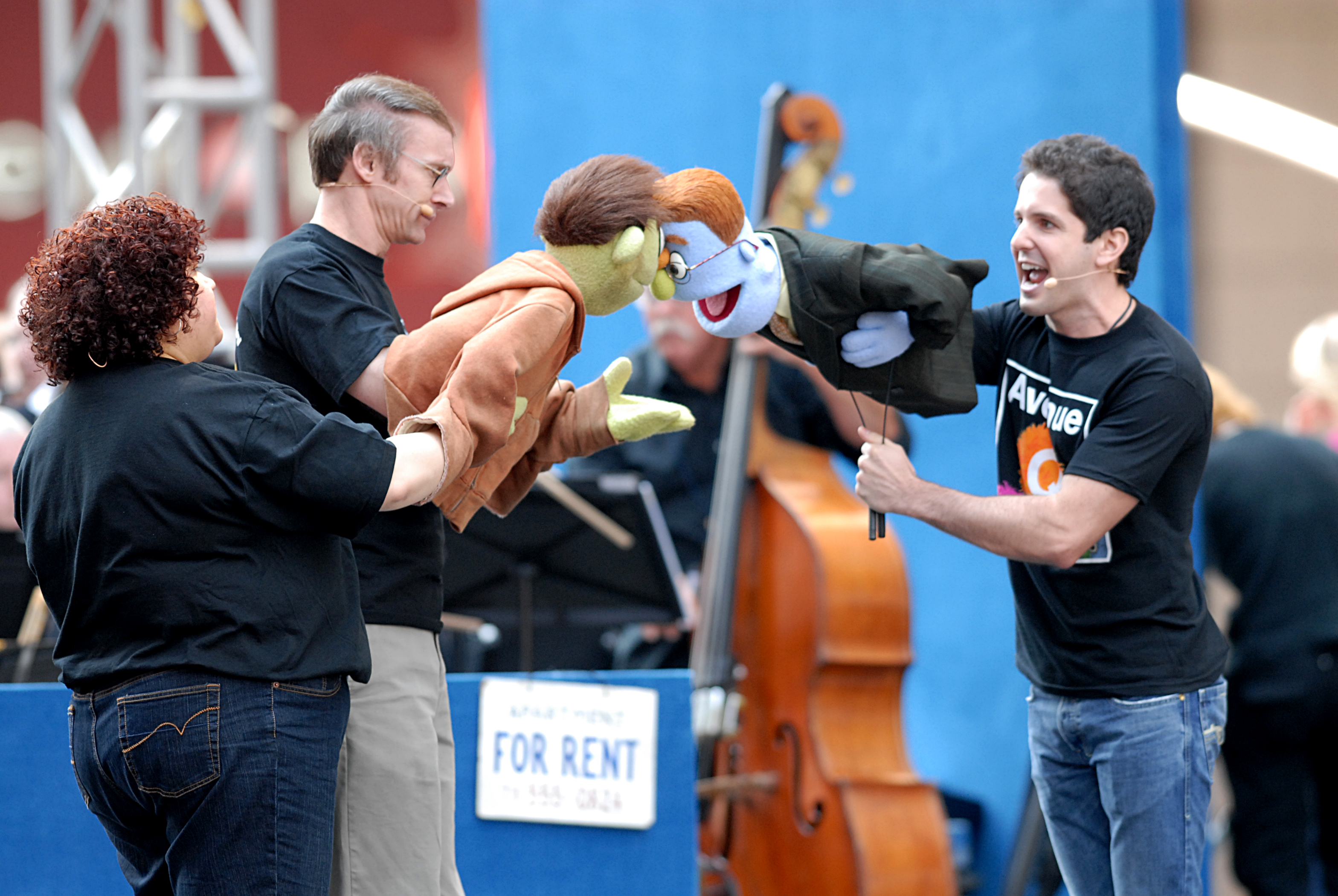 The cast of Avenue Q performs "It Sucks to Be Me" at Broadway on Broadway, September 10th 2006.